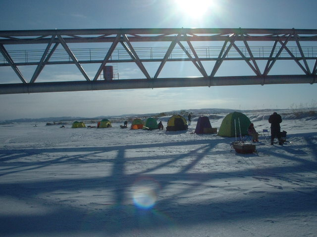 Hole fishing of wakasagi in winter.